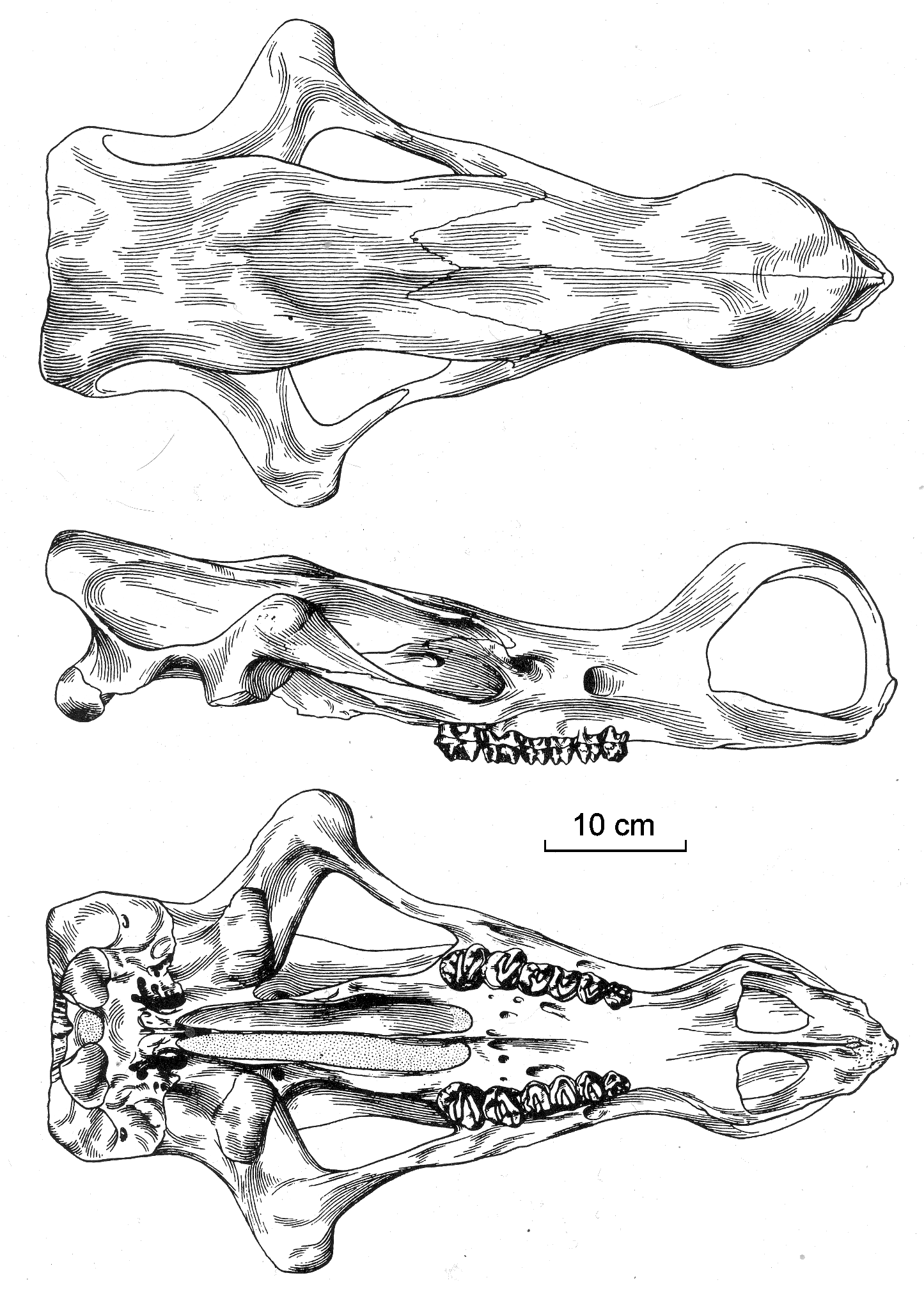 Skull of Gobiatherium mirificum, holotype